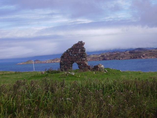 Iona - The Abbot's House This ruined house stands just north of the abbey. Isle of Mull in the background